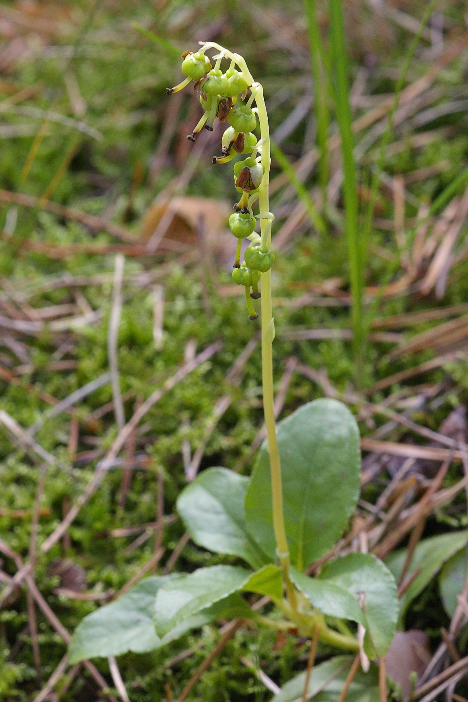 Fruits of Orthilia secunda (a few days/weeks after flowering).